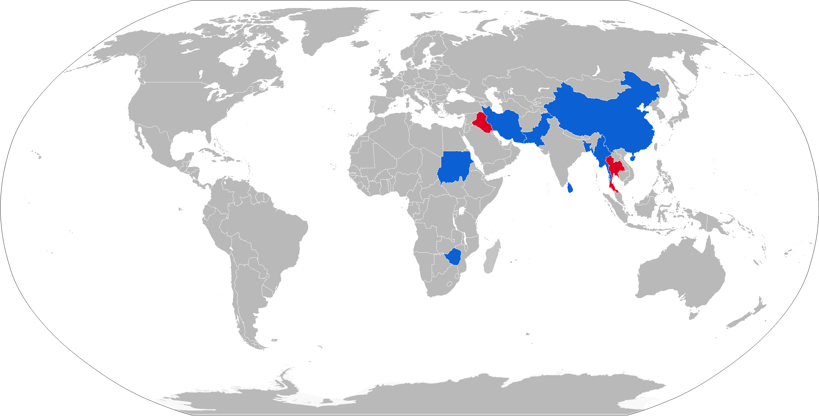 Map of Type 69 operators in blue with former operators in red